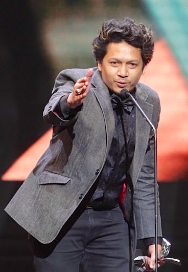 Pekin recieved an award at the 2006 Malaysia Film Festival